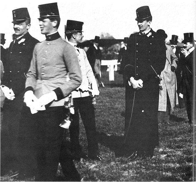 At the horse races in Freudenau, Vienna. Horse racing was very popular amongst the aristocracy and upper class, and played a similar role like Ascot in the United Kingdom.